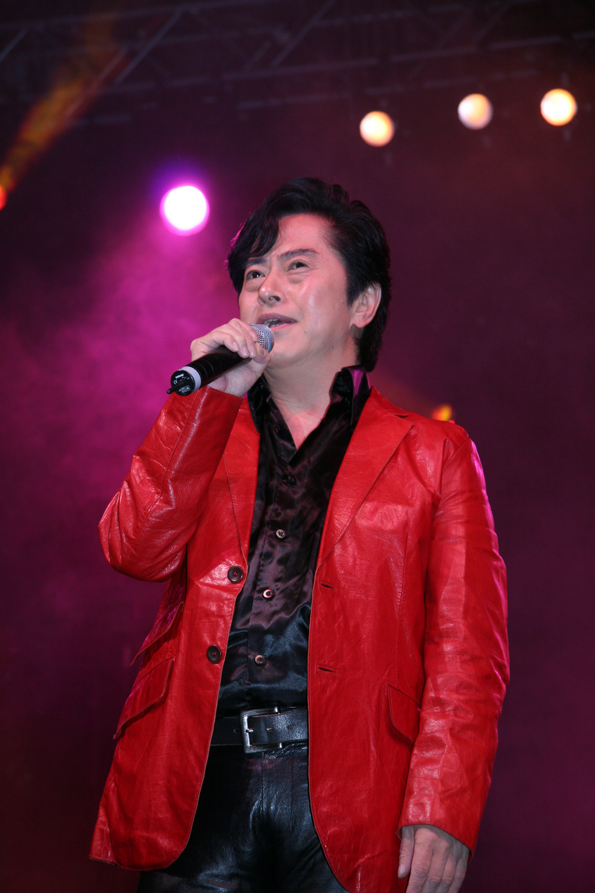 Ichiro Mizuki live at Japan Expo 2007 (Paris, France).